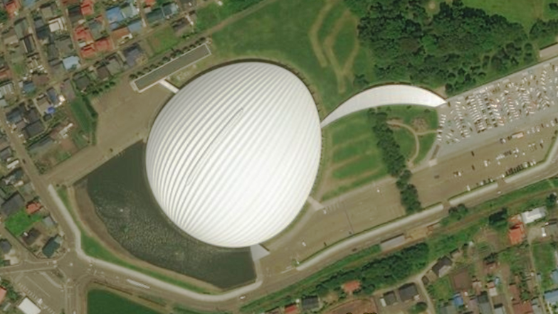 Nipro Hachiko Dome